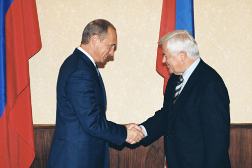 Milan Kučan and Vladimir Putin in 2002 at Novo-Ogaryovo